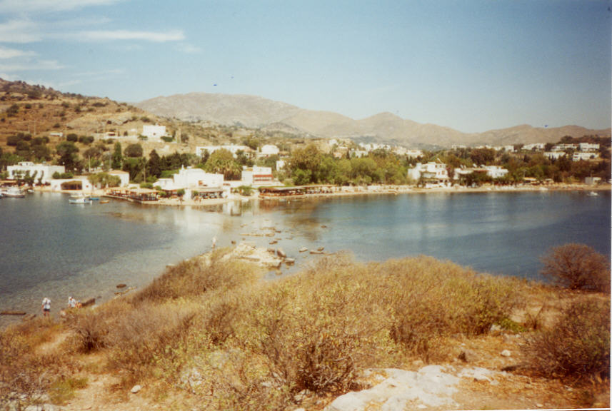 Gümüşlük, Bodrum - Turkey